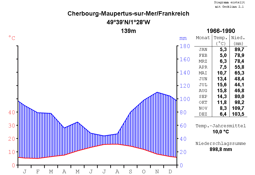 climate chart of Maupertus-sur-Mer near Cherbourg, France, for the period of time from 1966 to 1990, in the format by Walter and Lieth, metric, °Celsius and millimeters, chart made with Geoklima 2.1, label in German